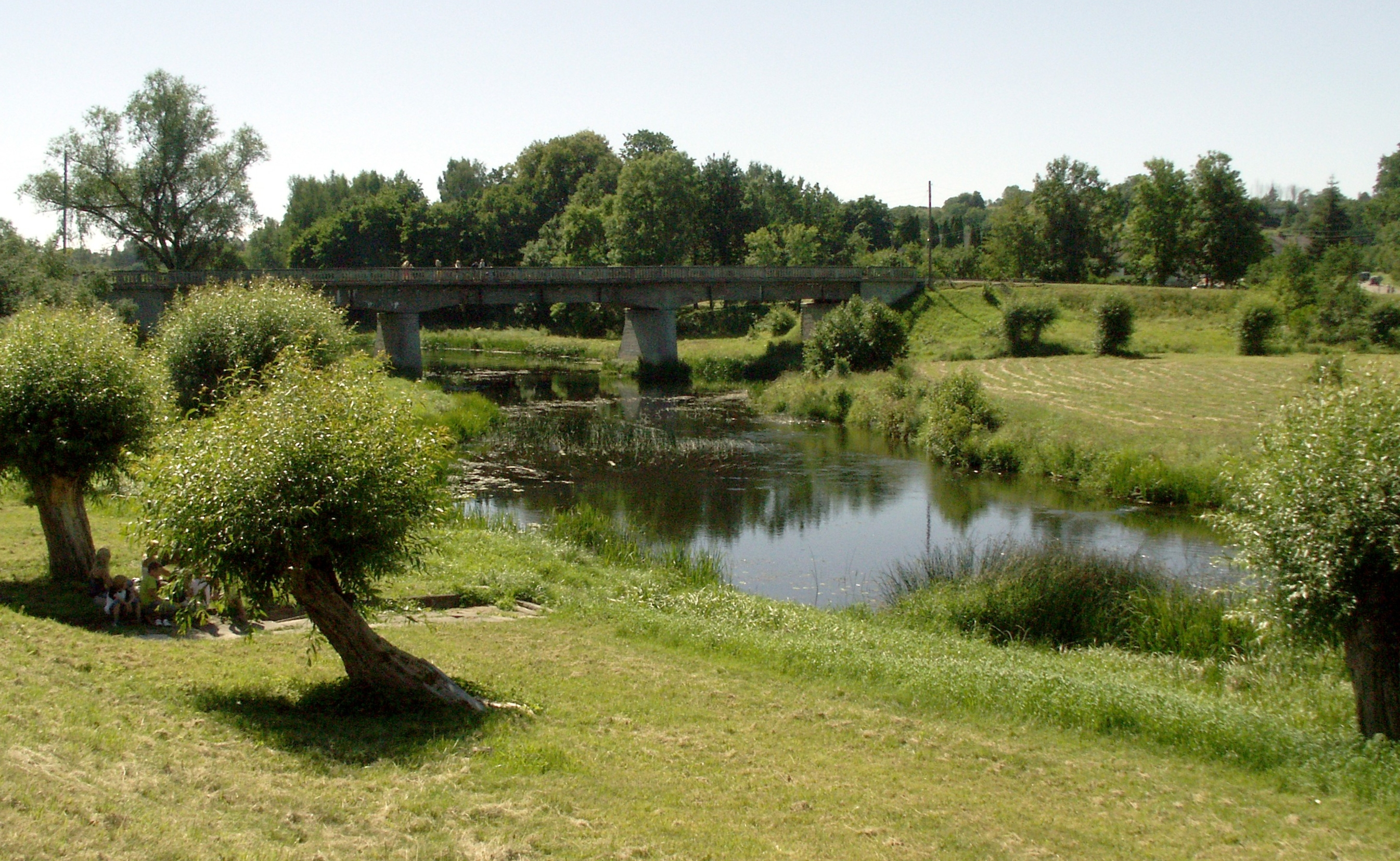 Sabile, Latvija